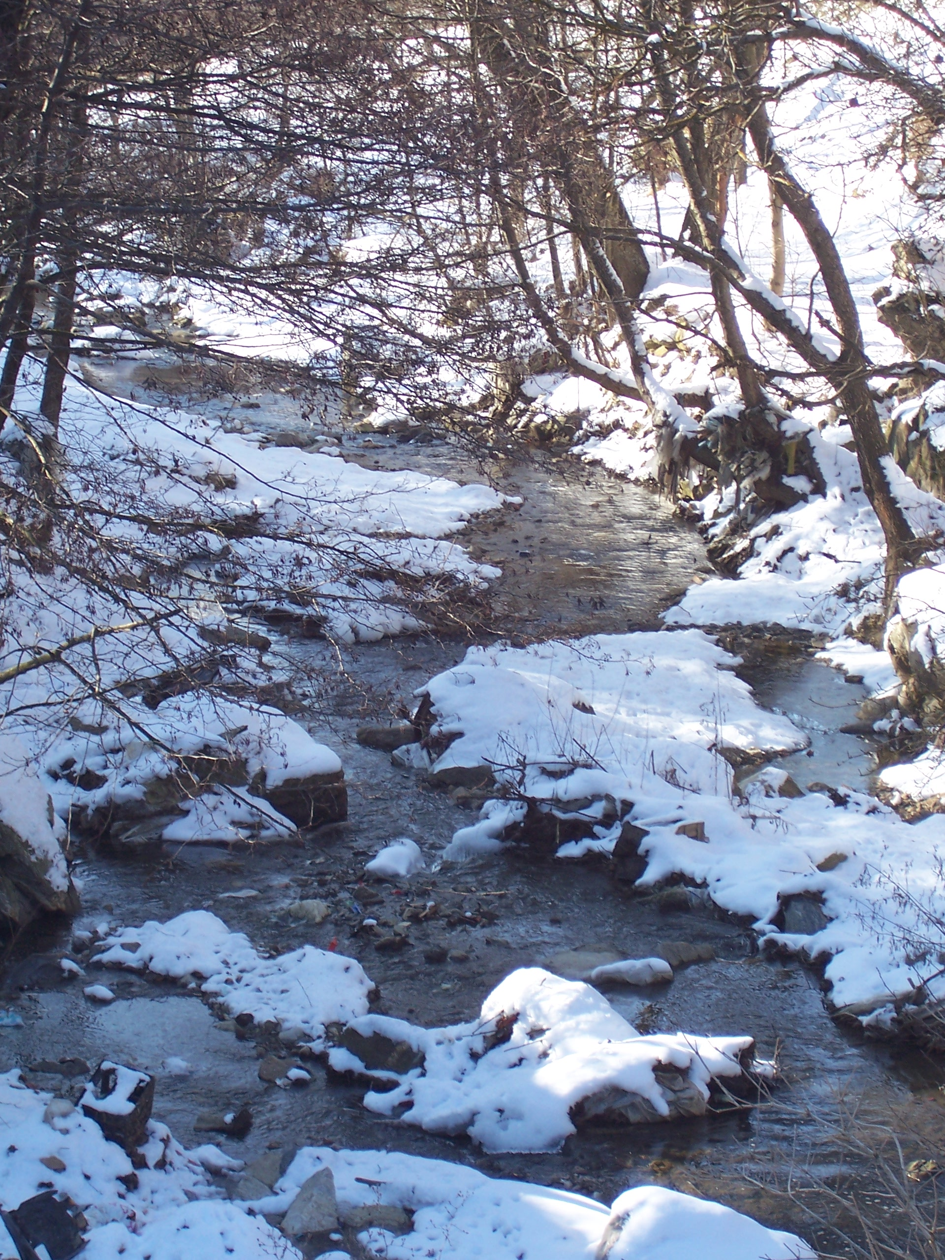 Kochanska River.